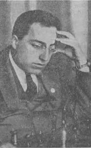 Yakov Vilner (chess player)